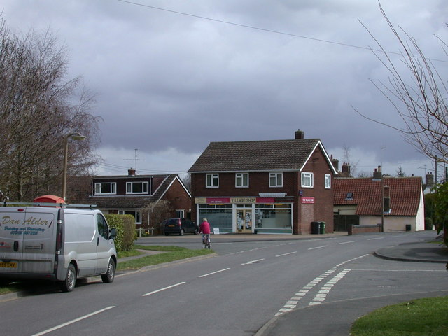 Haslingfield Village Shop